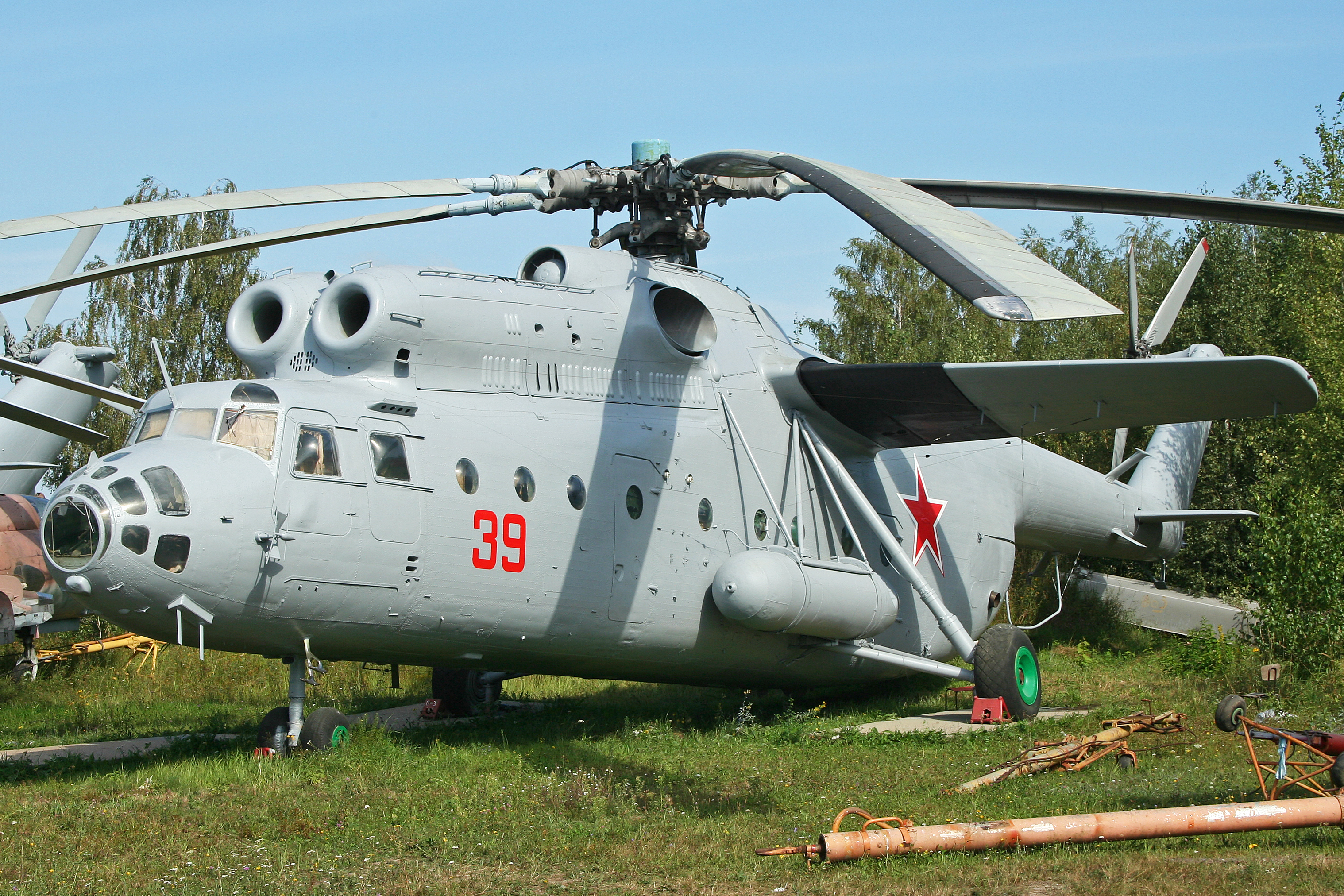 The VzPU was an airborne command post variant fitted with SLAR, which entered Soviet service as the Mil-22. Given that this example is the earlier designation, it is likely an early test aircraft for the type. As it has also been reported that this is an earlier VKP (Hook-B), which was a command post transport variant, I believe it is possible that it was built as a VKP, but was later converted into a VzPU for testing and evaluation. c/n 0454. On display outside at the Russian Air Force Museum. Monino, Russia